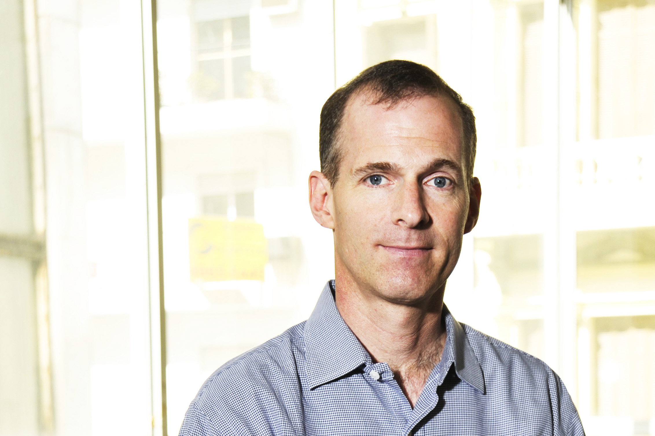 Wikimedia Foundation Board Member Matt Halprin